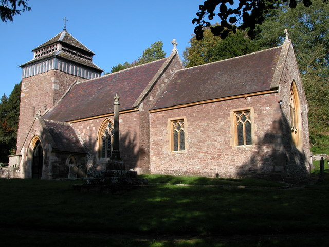 Rockfield Church. The church is dedicated to St Cenedlon.